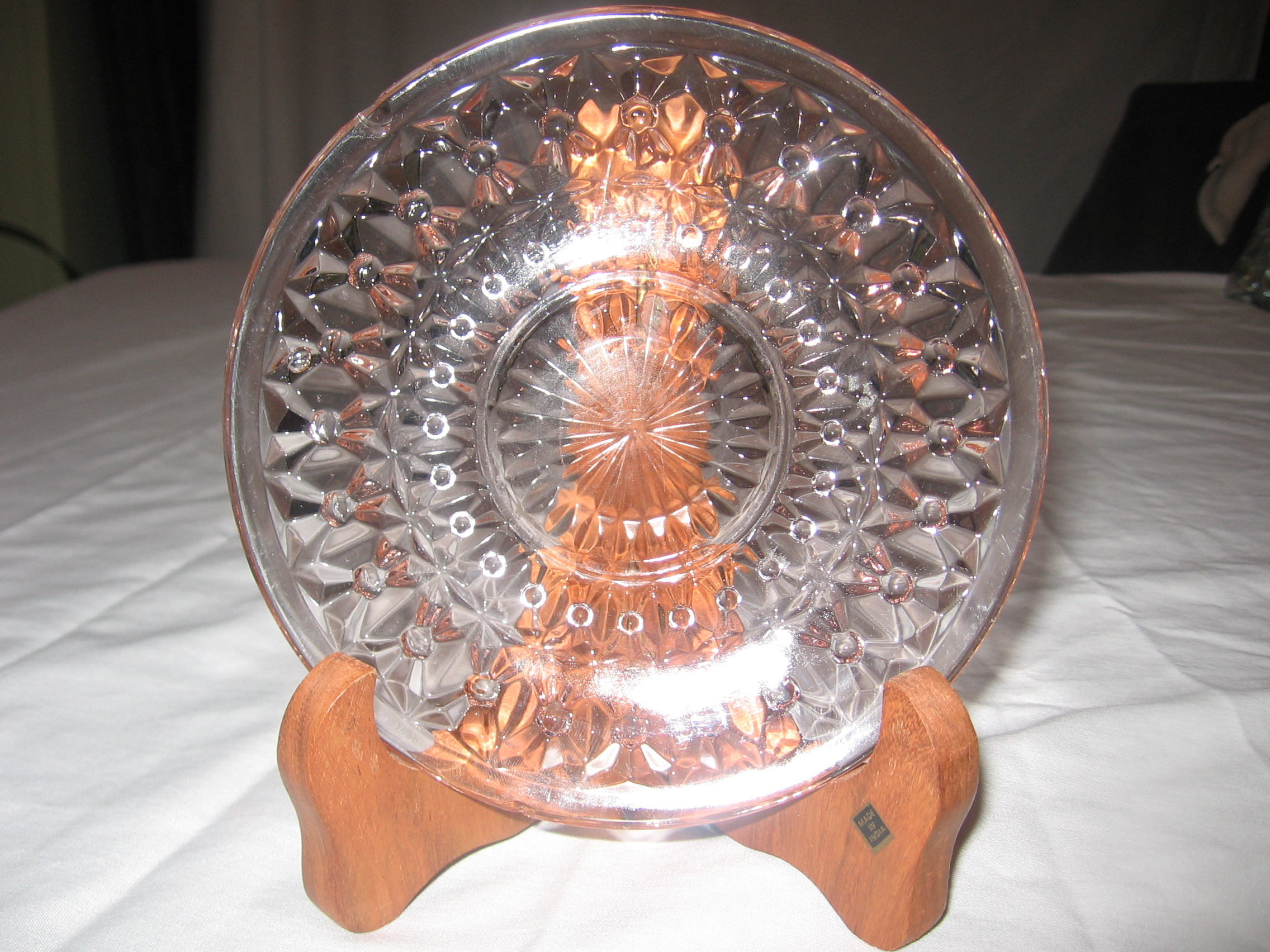 Clear Depression Plate